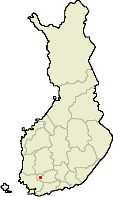 Own work, location of Forssa, Finland